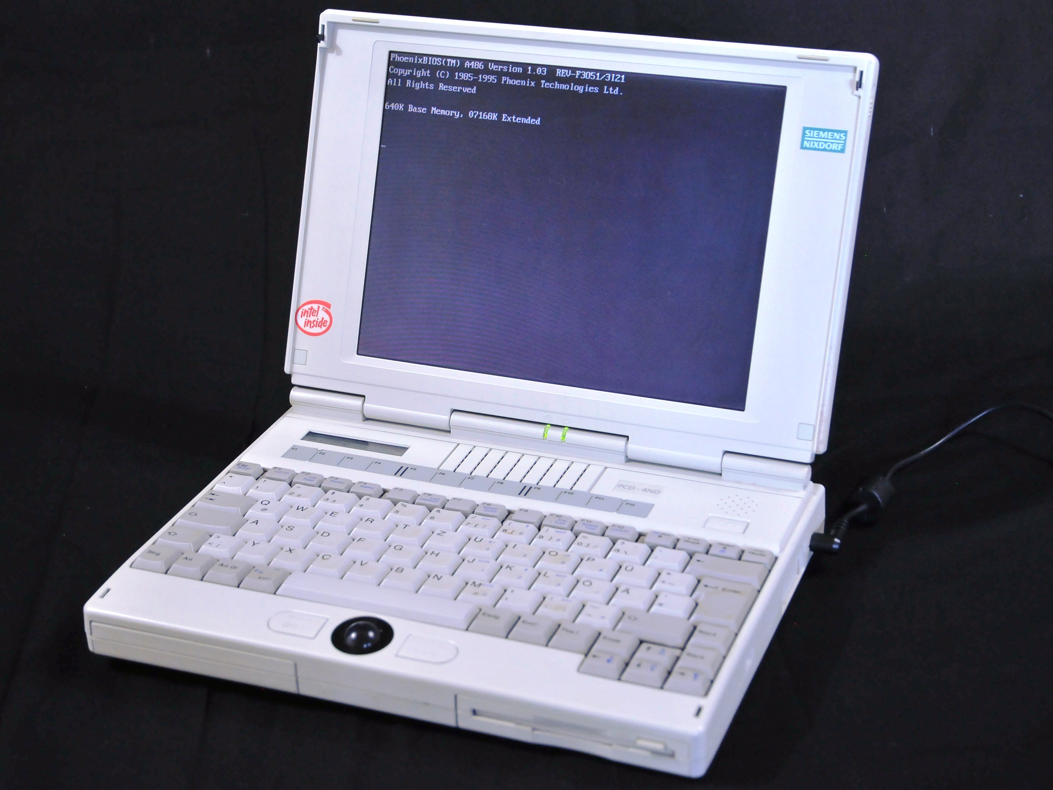 1995 Laptop PCD-4ND by Siemens-Sixdorf